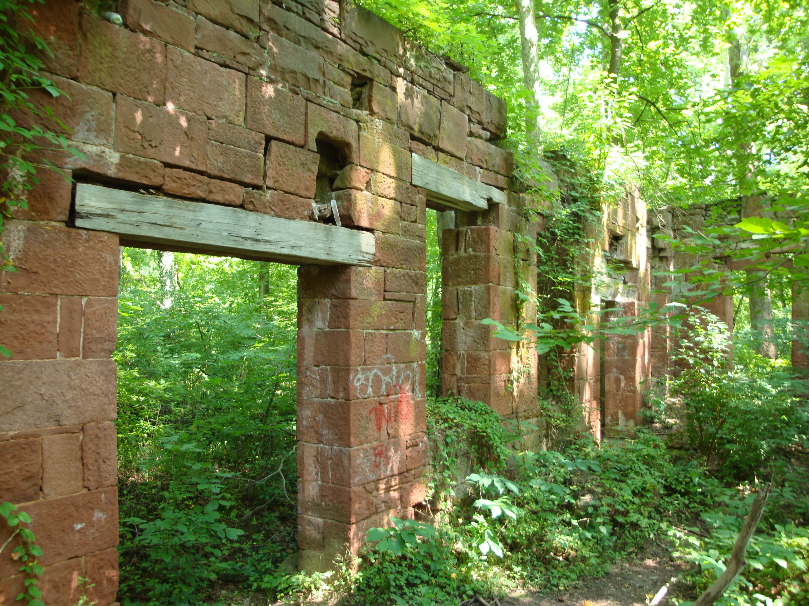 The ruins of the Seneca quarry stonecutting mill.